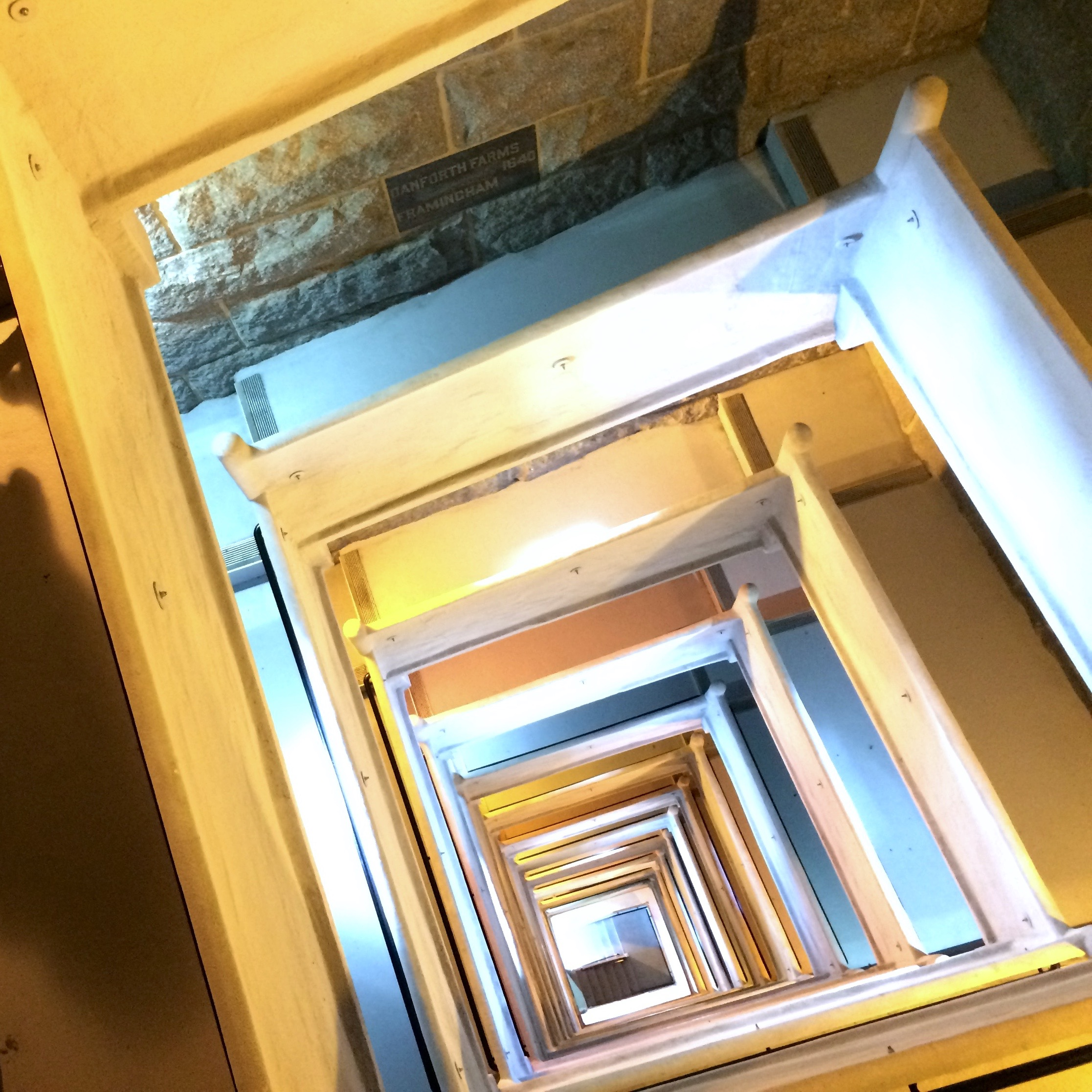 Interior of Pilgrim Monument, showing some of the 60 ramps used to climb most of the way up (there are some stairs at the bottom and at the top).